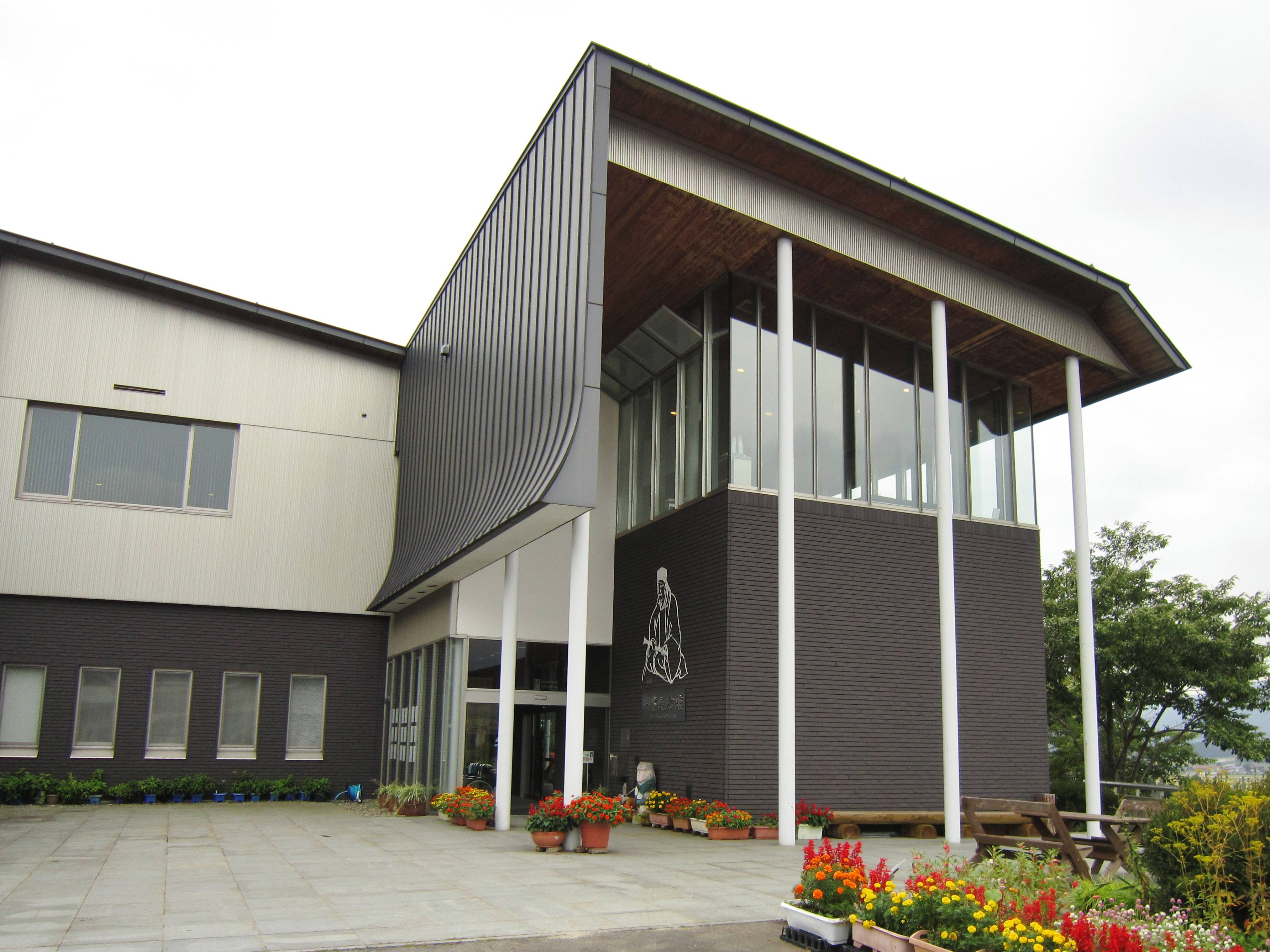 Issa Memorial Museum.